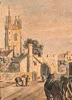 Cropped image of 'The north gate, Cardiff', by Paul Sandby, late 18th century